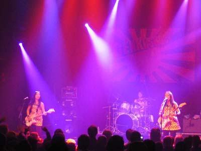 Shonen Knife Live.